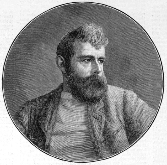 An engraved portrait of British artist William Lionel Wyllie